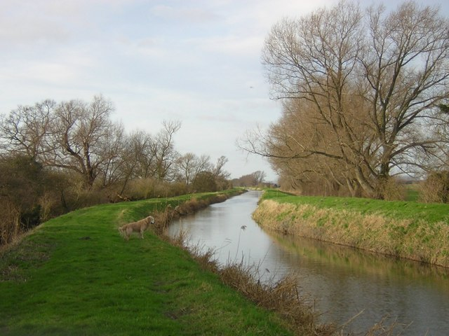 Swaffham Bulbeck Lode